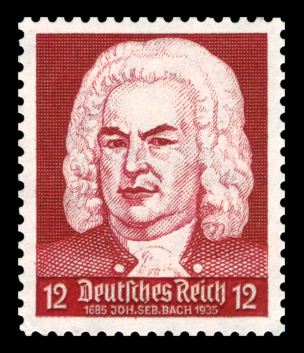 Commemorative stamp for the Bach festivity in Leipzig jun, 6th till jun, 26th 1935 Graphics by F.Spiegel Ausgabepreis: 12 Pfennig First Day of Issue / Erstausgabetag: 21. Juni 1935 Michel-Katalog-Nr: 574 (Deutsches Reich)